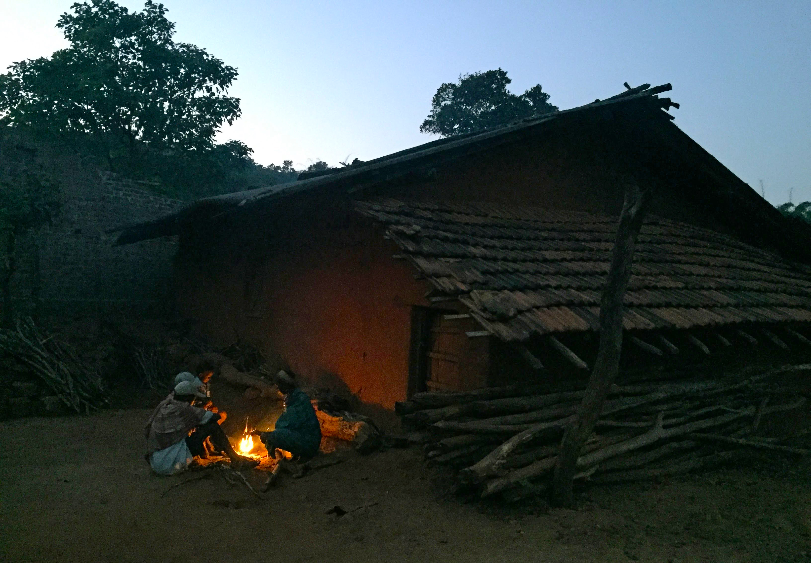 Bonda (Remosam) family basking near fire in Mudulipada, Odisha, India. This was shot during the field research and filming of documentary "Remosam" (directed by Subhashish Panigrahi with support from National Geographic Society) in Koraput.